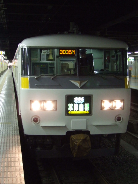 LTD Exp.〝Kusatsu-Shirane〟 of Series 185,East Japan Railway,Japan